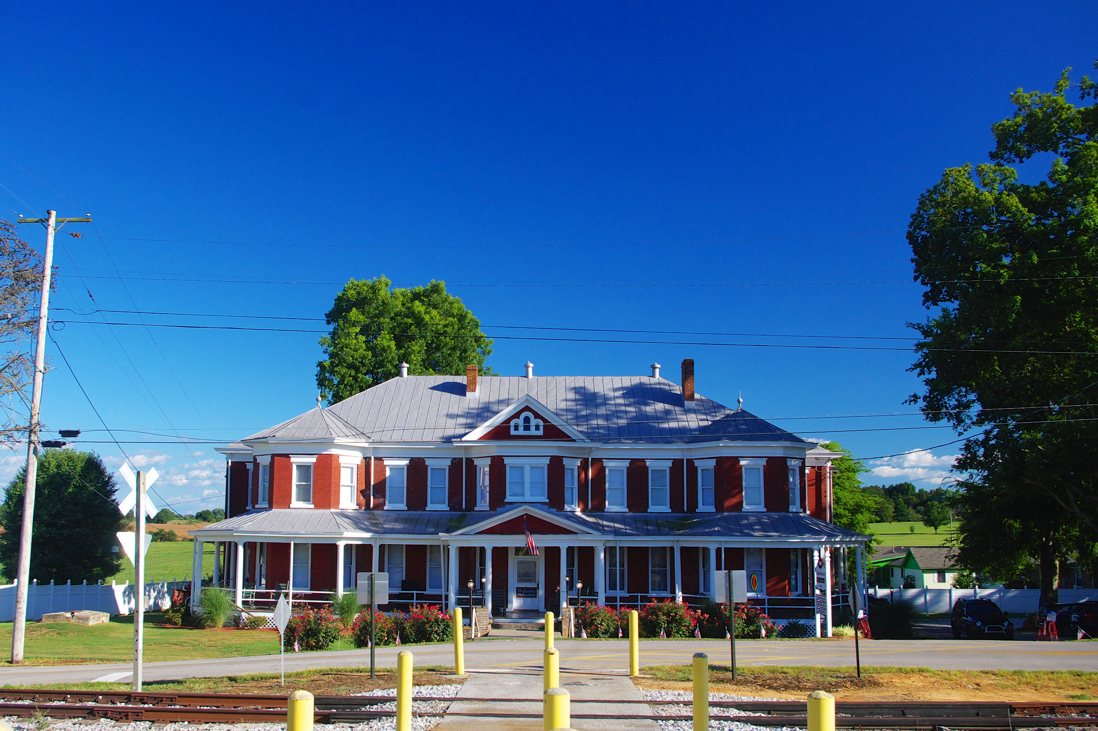 The old Renfro Hotel, now the Grand Victorian Inn, in Park City, Kentucky, United States.